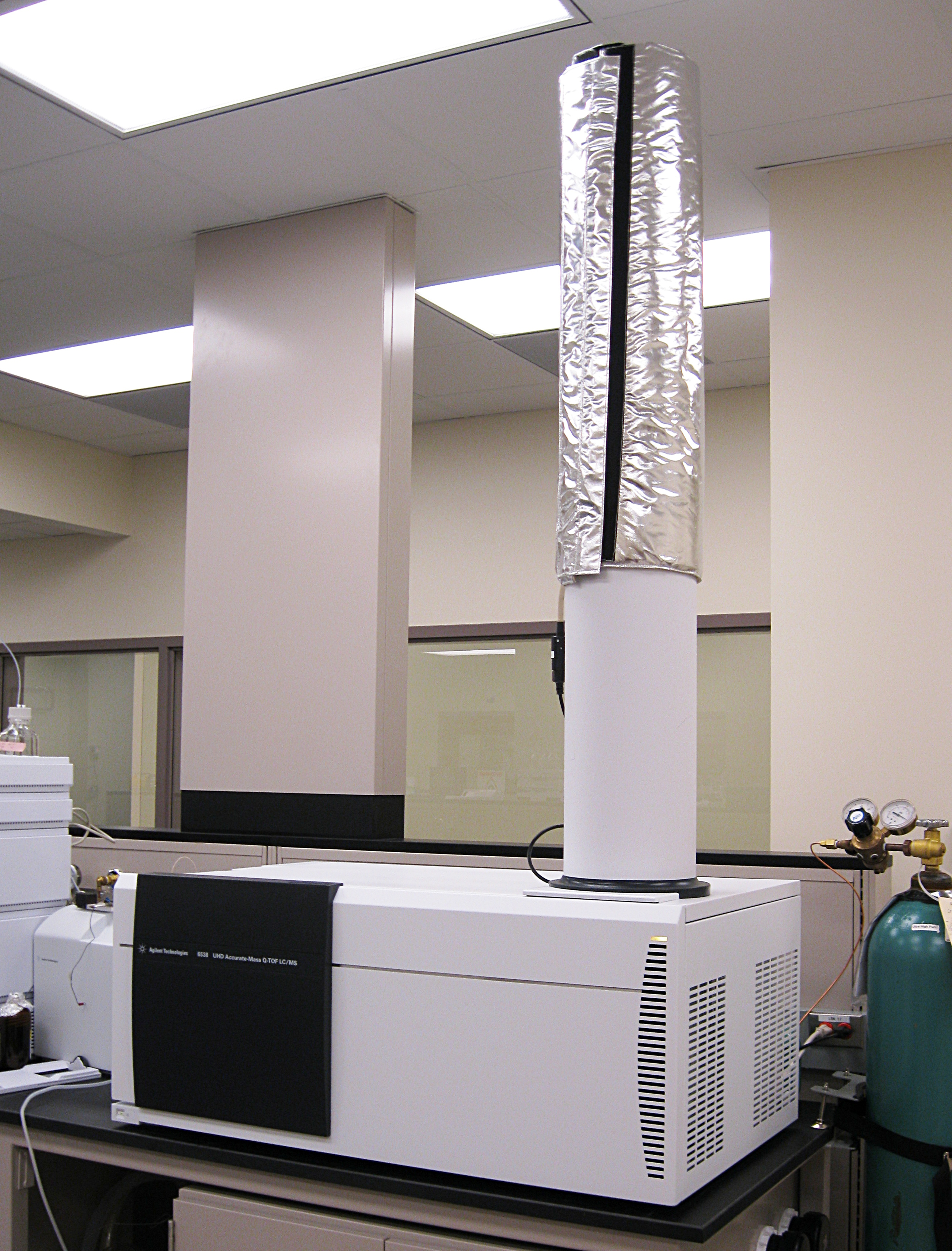 Pumping Down - Agilent 6538 Ultra High Definition (UHD) Accurate-Mass Q-TOF LC-MS System